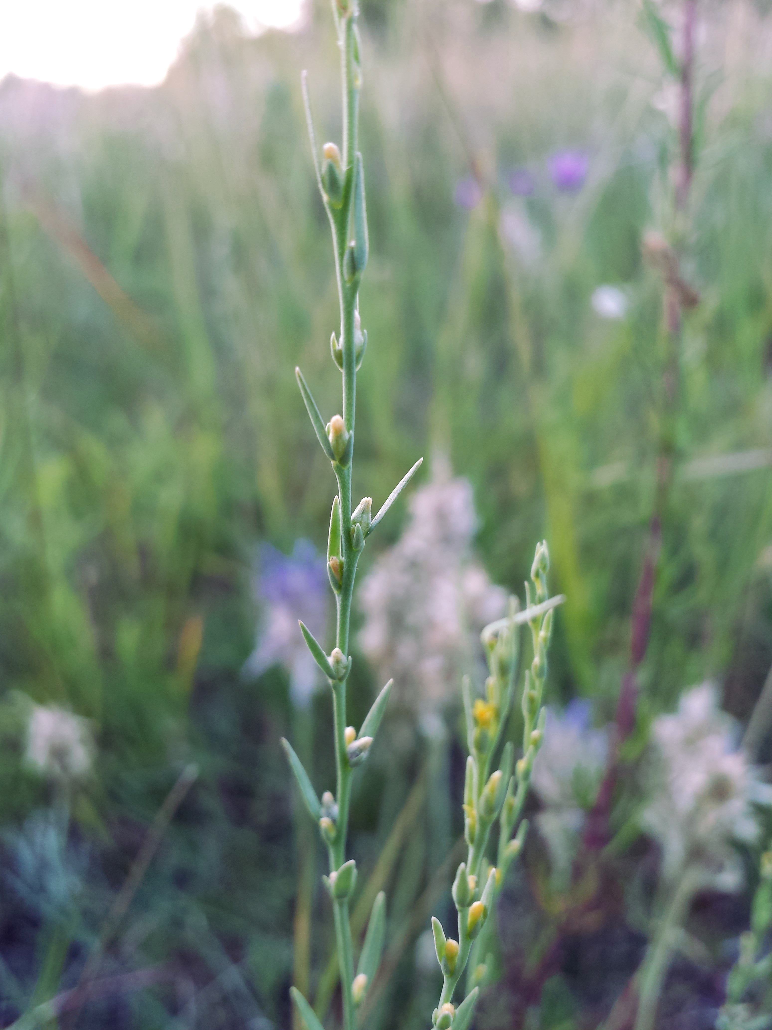 Flowers Taxon: Thymelaea passerina (sensu Fischer et al. EfÖLS 2008) Location: old marshalling yard Breitenlee, Vienna-Donaustadt - ca. 160 m a.s.l. Habitat: dry grassland